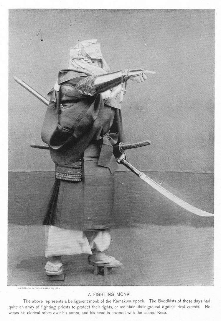 (Discription from the original photograph) A Fighting Monk. The above represents a beligerent monk of the Kamakura epoch. The Buddhists of those days had quite an army of fighting priests to protect their rights, or maintain their ground against rival creeds. He wears his clerical robes over his armor, and his head is covered with the sacred Kesa. From:"Military Costumes in Old Japan", Photographed by K. Ogawa (1860—1929), Under the Direction of Chitora Kawasaki of Ko-yu-kai (Tokyo Fine Art School), Tokyo, K. Ogawa, 1895 (Meiji 28)